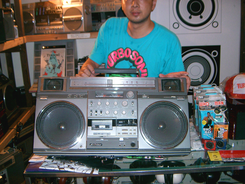 Shogo Tsuruoka shows off one of many vintage Boomboxes at "TurboSonic", Tokyo's only Boombox store. Sean Wilson 2005, Koenji, Tokyo, Japan